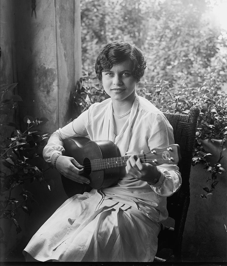 Nancy Hamilton, 9/9/26